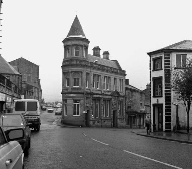 Barclay's Bank, Padiham, Lancashire An imposing building at the top of Burnley Road.